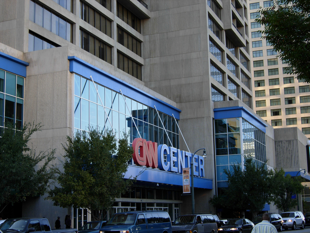 CNN Center in Atlanta, Georgia